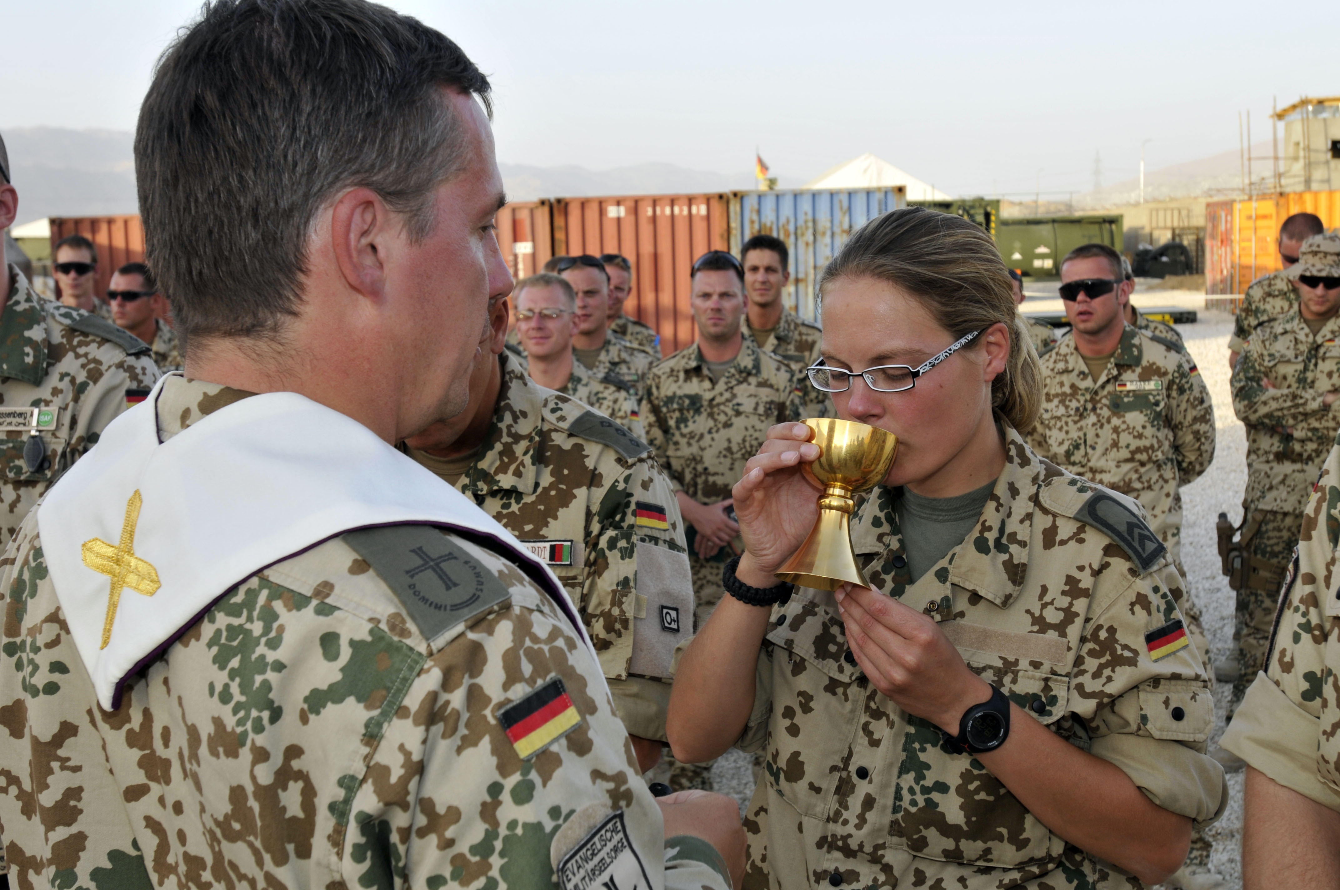 A German chaplain gives a goblet of wine for sipping to symbolize the blood of Jesus Christ at a ceremony that blessed the solders with safe passage during their combat tour in northern Afghanistan.